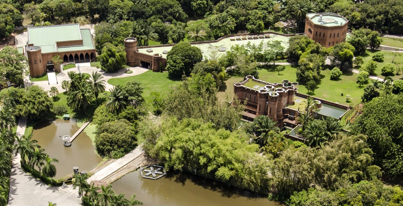 Ricardo Brennand Institute - Recife, Pernambuco, Brazil